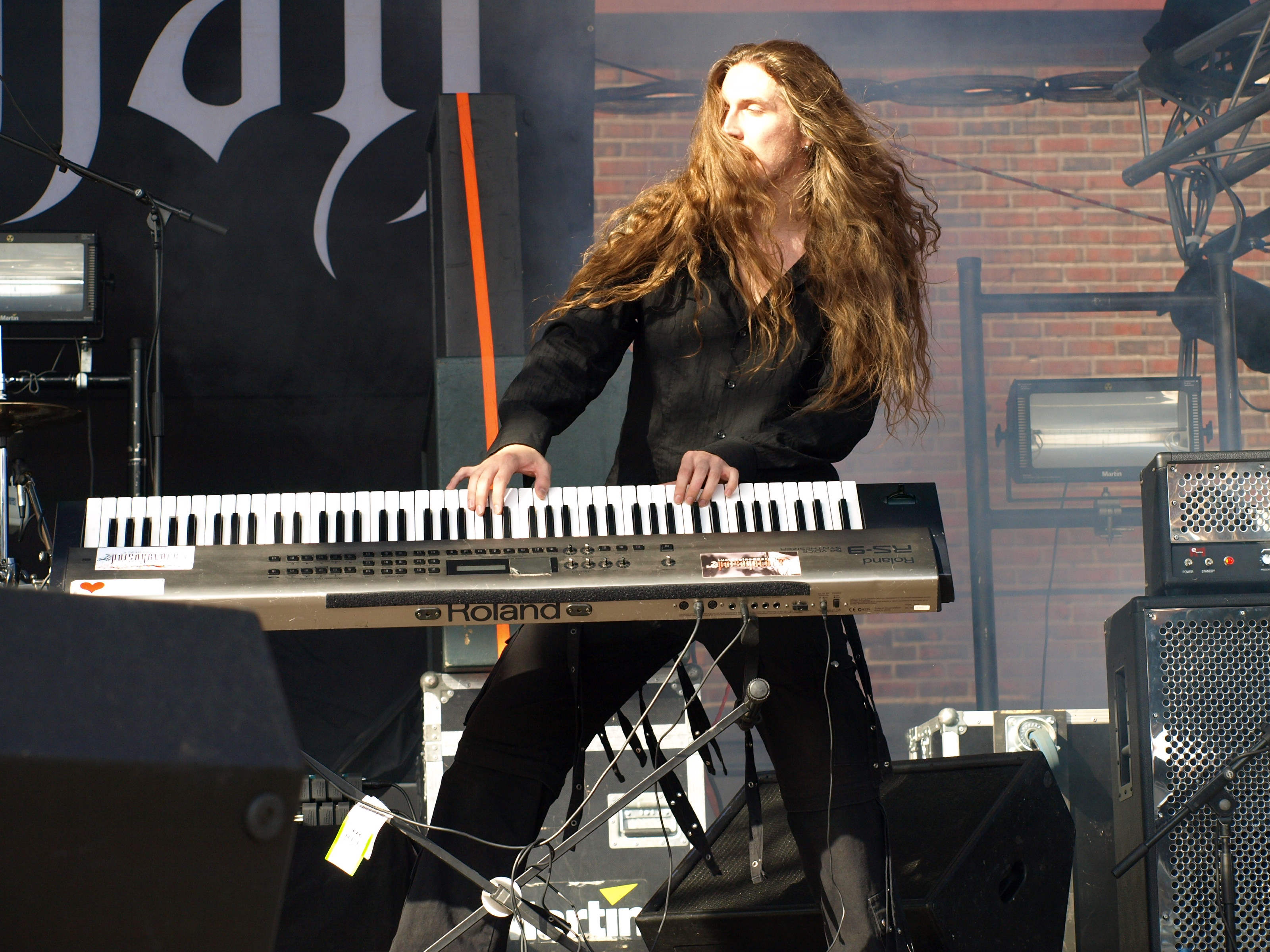 Finnish melodic death metal band Kalmah live at Jalometalli 2008 in Oulu.